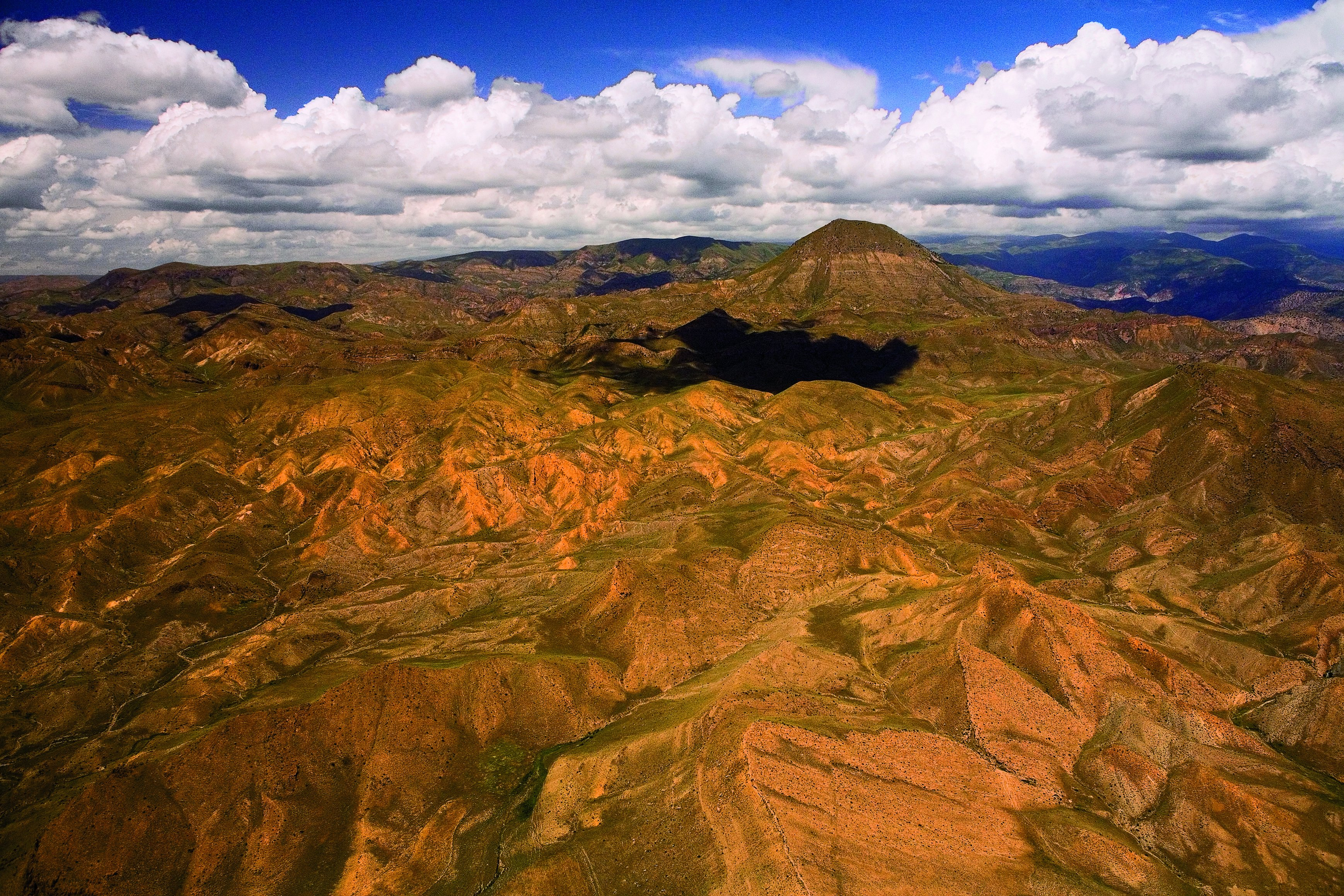 The Volcanic Landscape of the Geghama Mountains